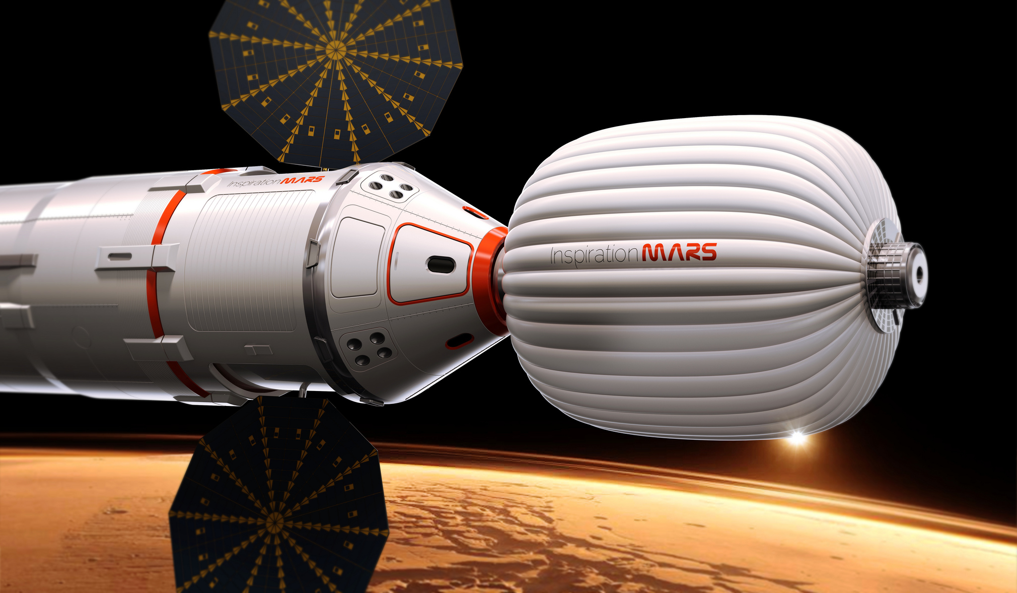 Early artist's conception of Inspiration Mars capsule and habitat module passing by Mars.